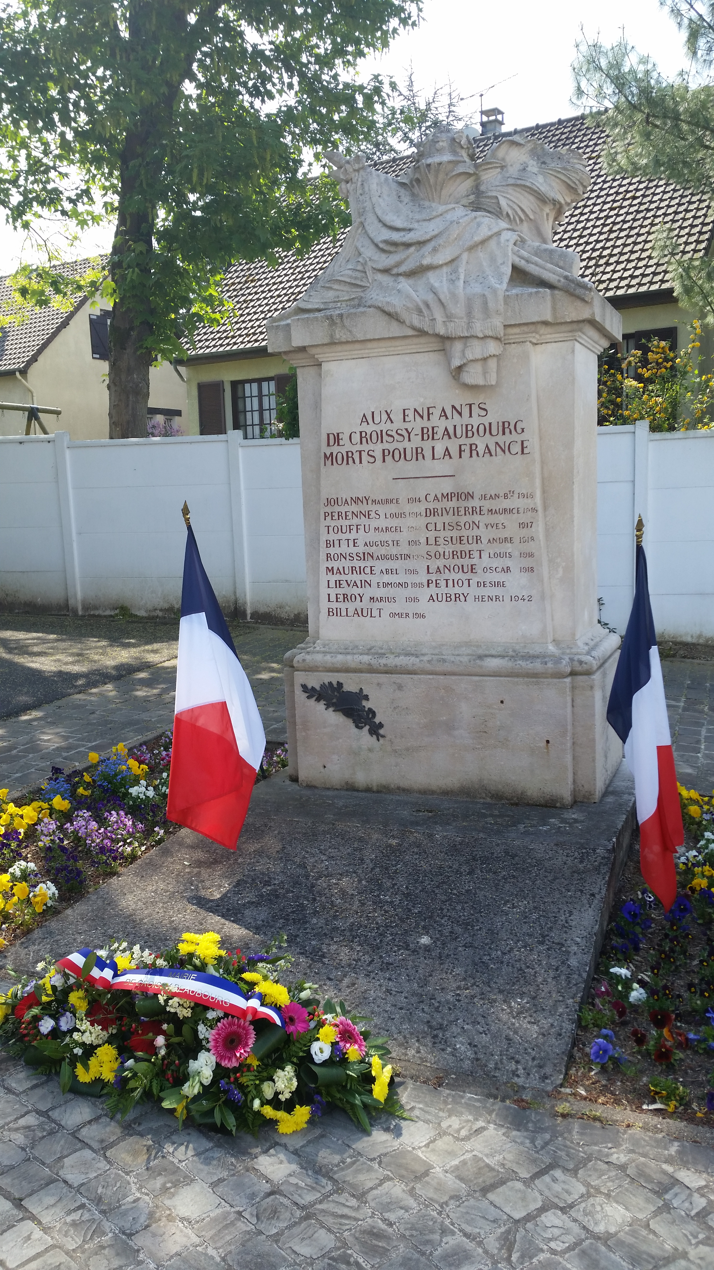 Crois-Beaubourg (french town) war monument